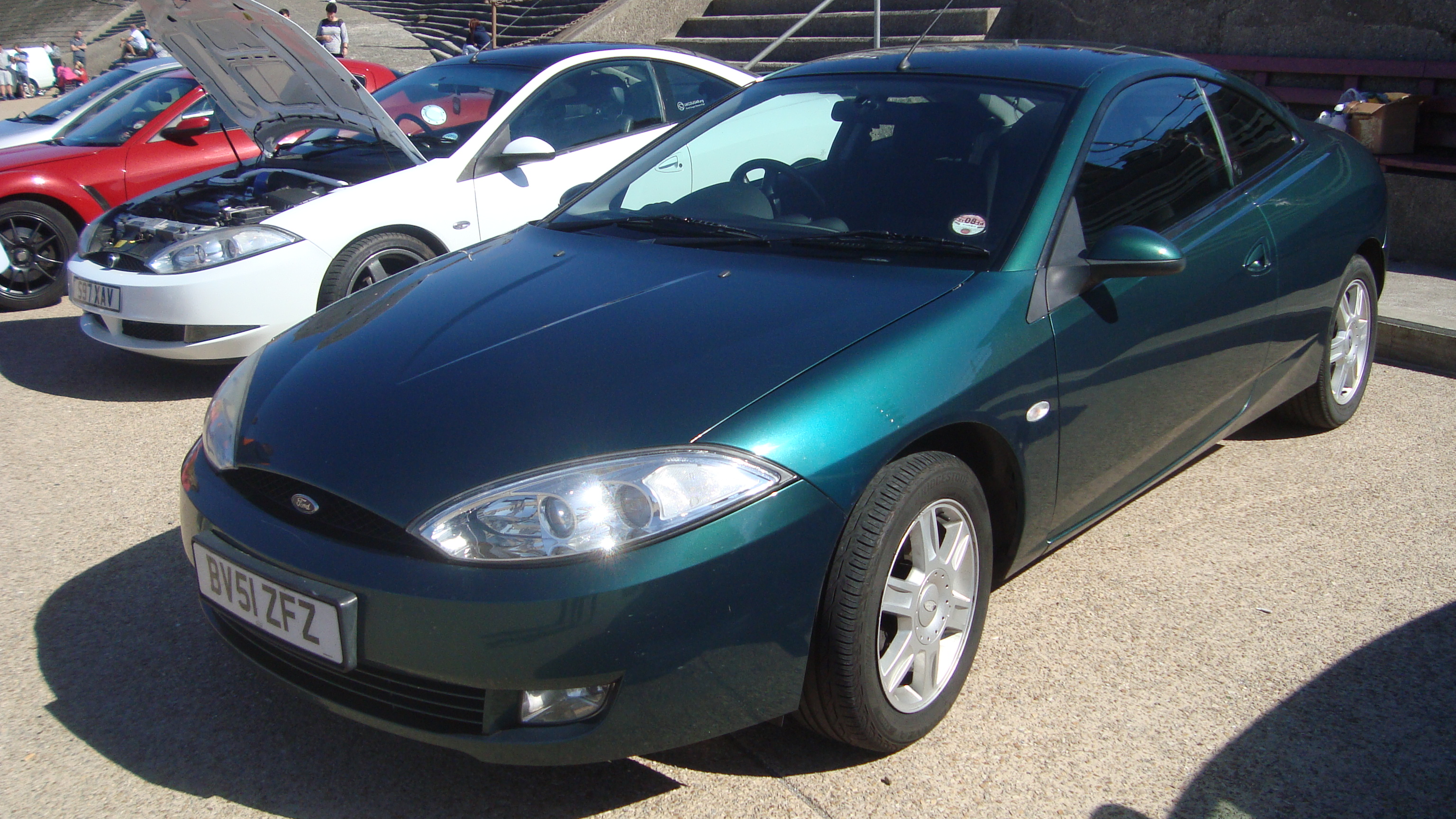 2001 Ford Cougar 2.5 V6 24V